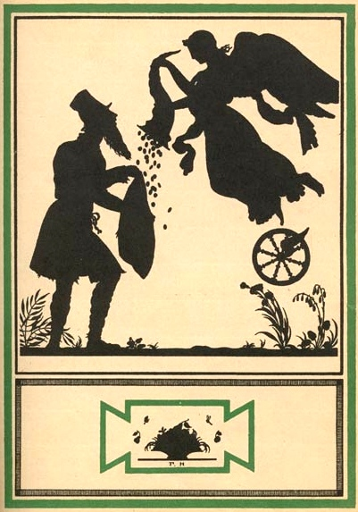 An Art Nouveau silhouette by Ukrainian artist Heorhiy Narbut published in 1911 as an illustration of "The beggar and fortune" in 3 Fables of Ivan Krylov